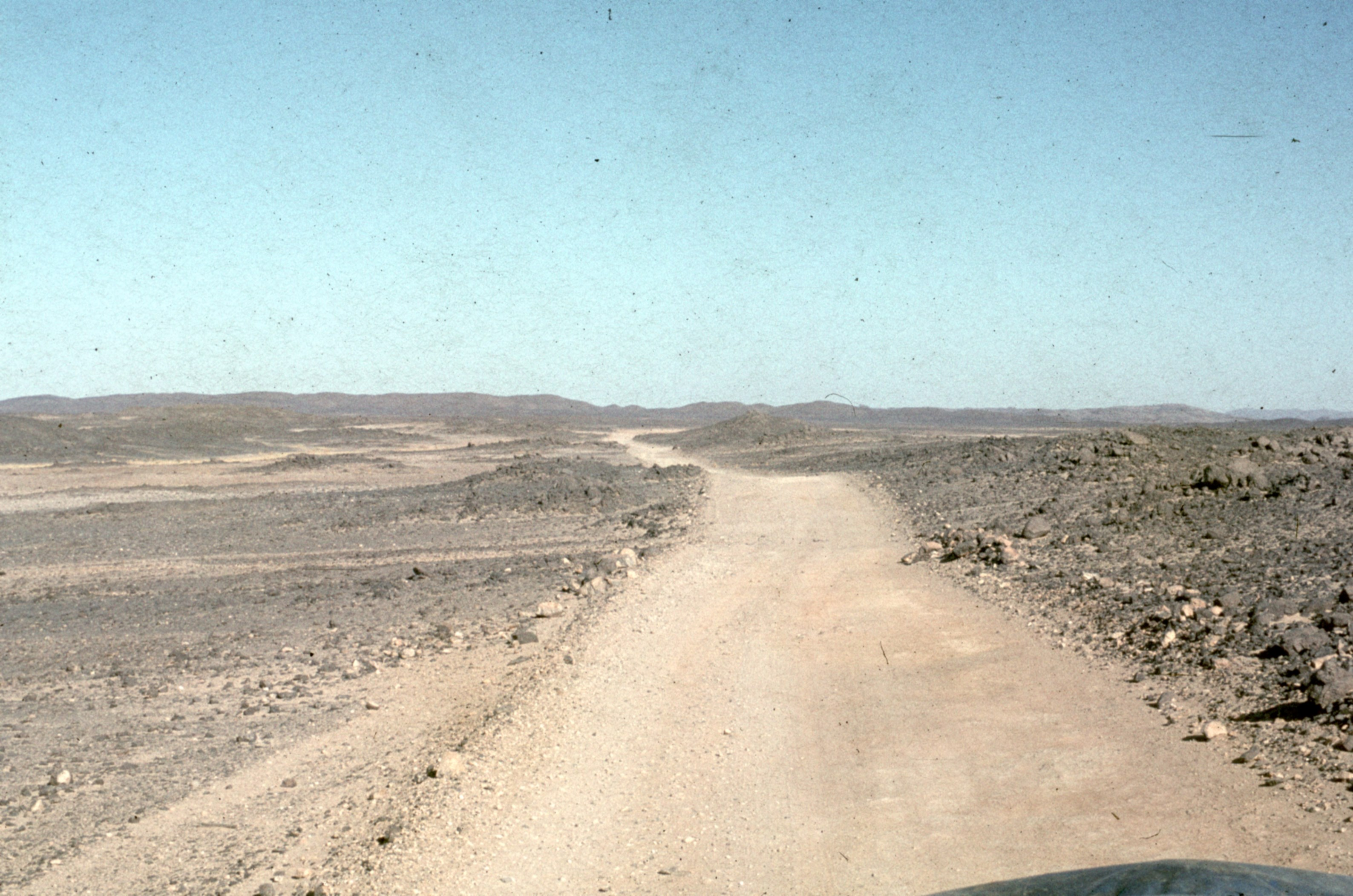 The road between Gao and Tessalit, Nothern Mali